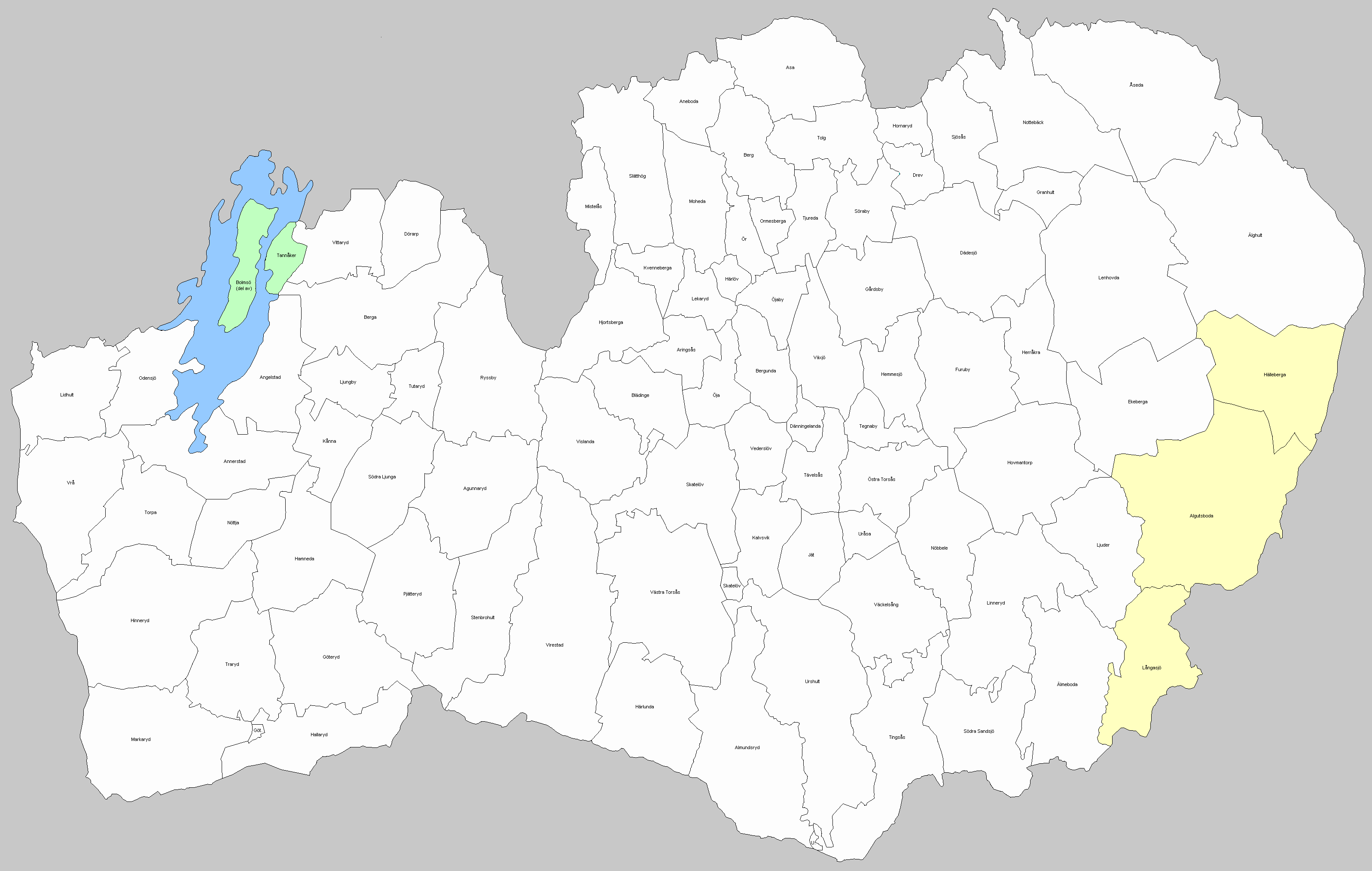 Parishes of Kronoberg's county